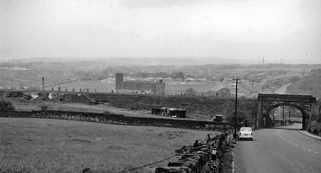 Site of Bailiff Bridge Station. View west on A649 to site of Bailiff Bridge Station, which was closed right back on 2/4/17 (!), on the loop line (Pickle Bridge Branch) connecting Huddersfield (Bradley Wood Junction) with Bradford via Wyke Junction, by-passing Halifax; the line ceased to carry local passenger trains on 14/9/31, through trains in 6/48 and freight on 4/8/52. The formation (if not the railway) was still there when I took this photograph.